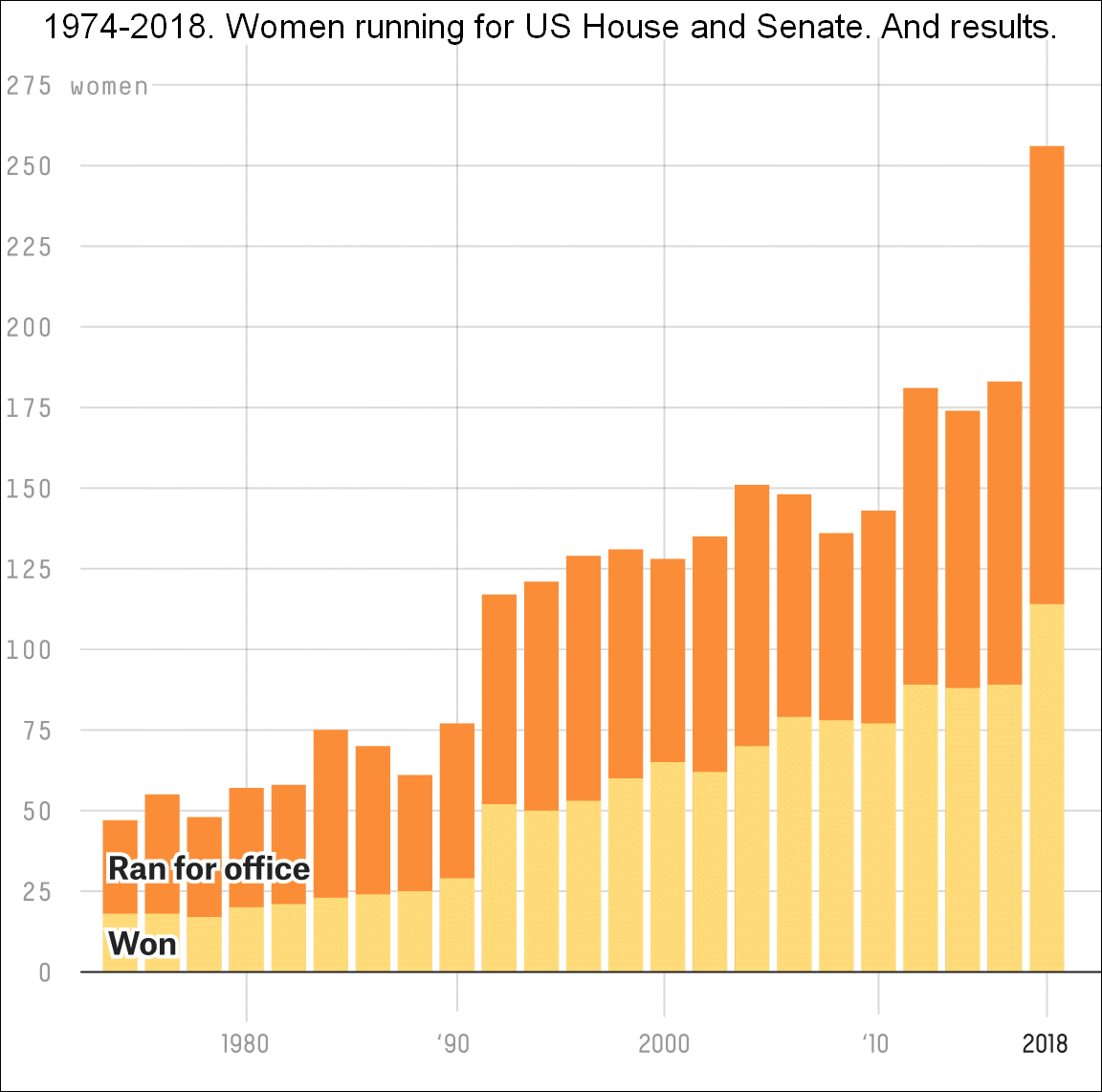 The number of women who sought and won election to US Congress in each election cycle from 1974 to 2018. Data source: Women candidates for Congress 1974 - 2018. Center for American Women and Politics. Add up House and Senate columns to get totals. Party and seat summary for major party nominees.